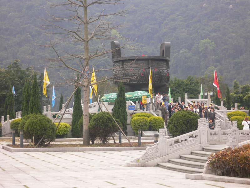 Ding Garden, Dinghu Mountain, Zhaoqing, Guangdong, China